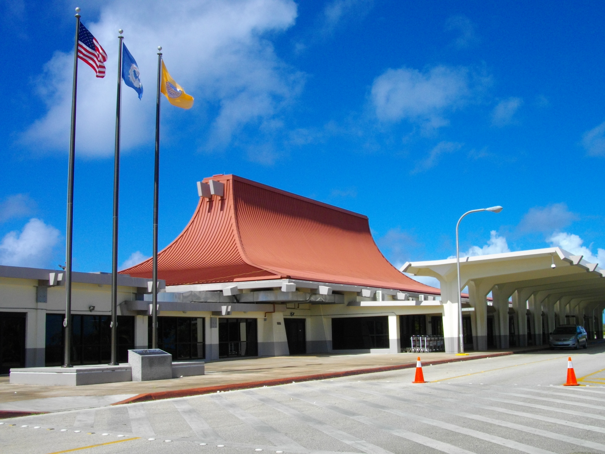 Saipan International Airport Terminal Building